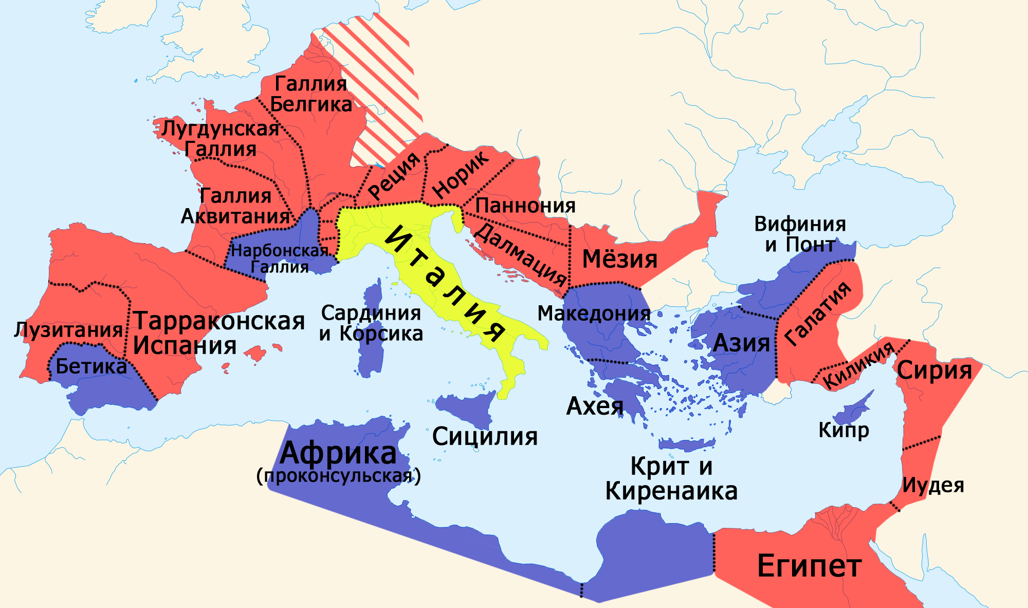 Roman Empire in 14 AD. Italy is painted in yellow, senatorial provinces are in blue, imperial provinces in red.